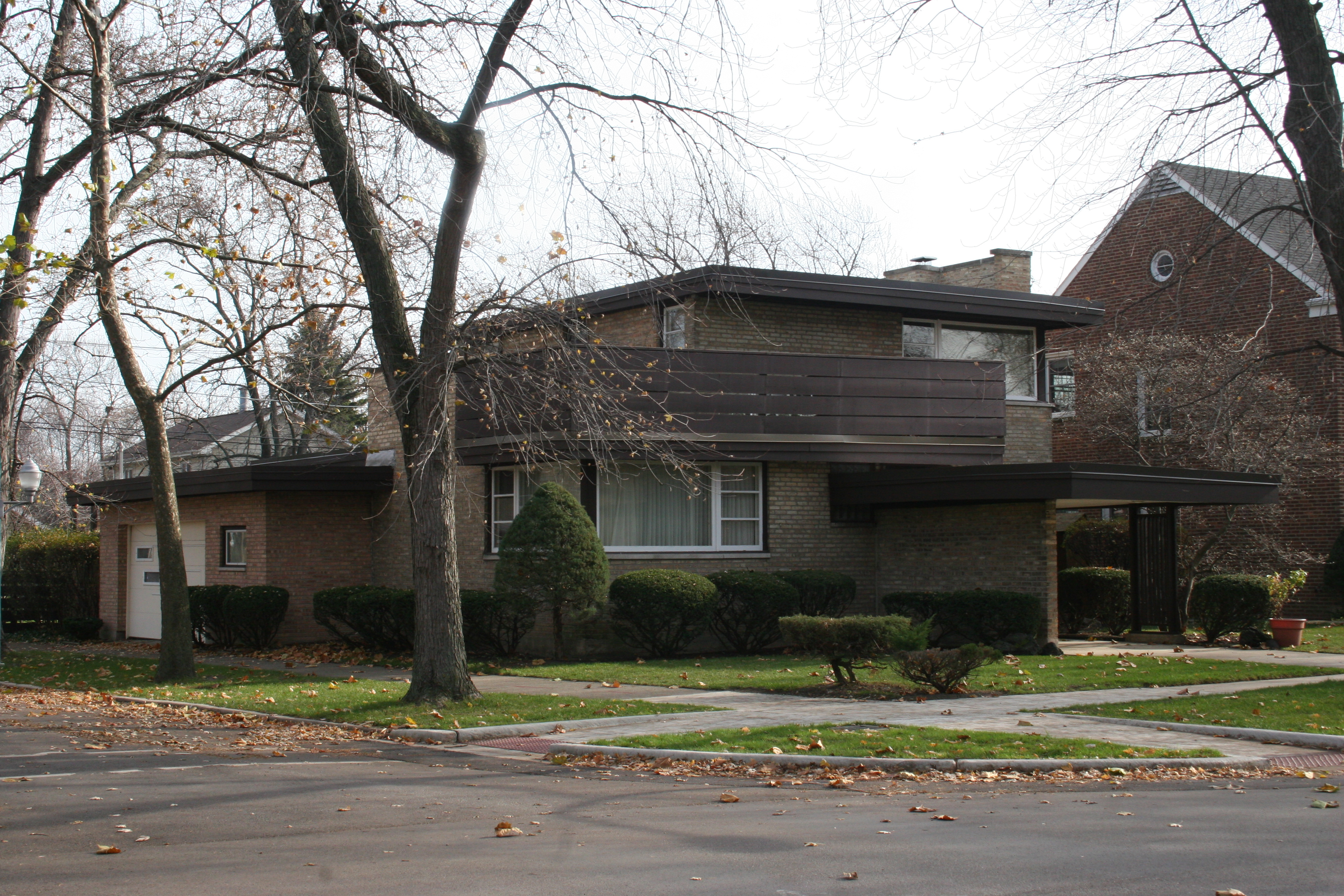 House in Edison Park, Chicago, IL